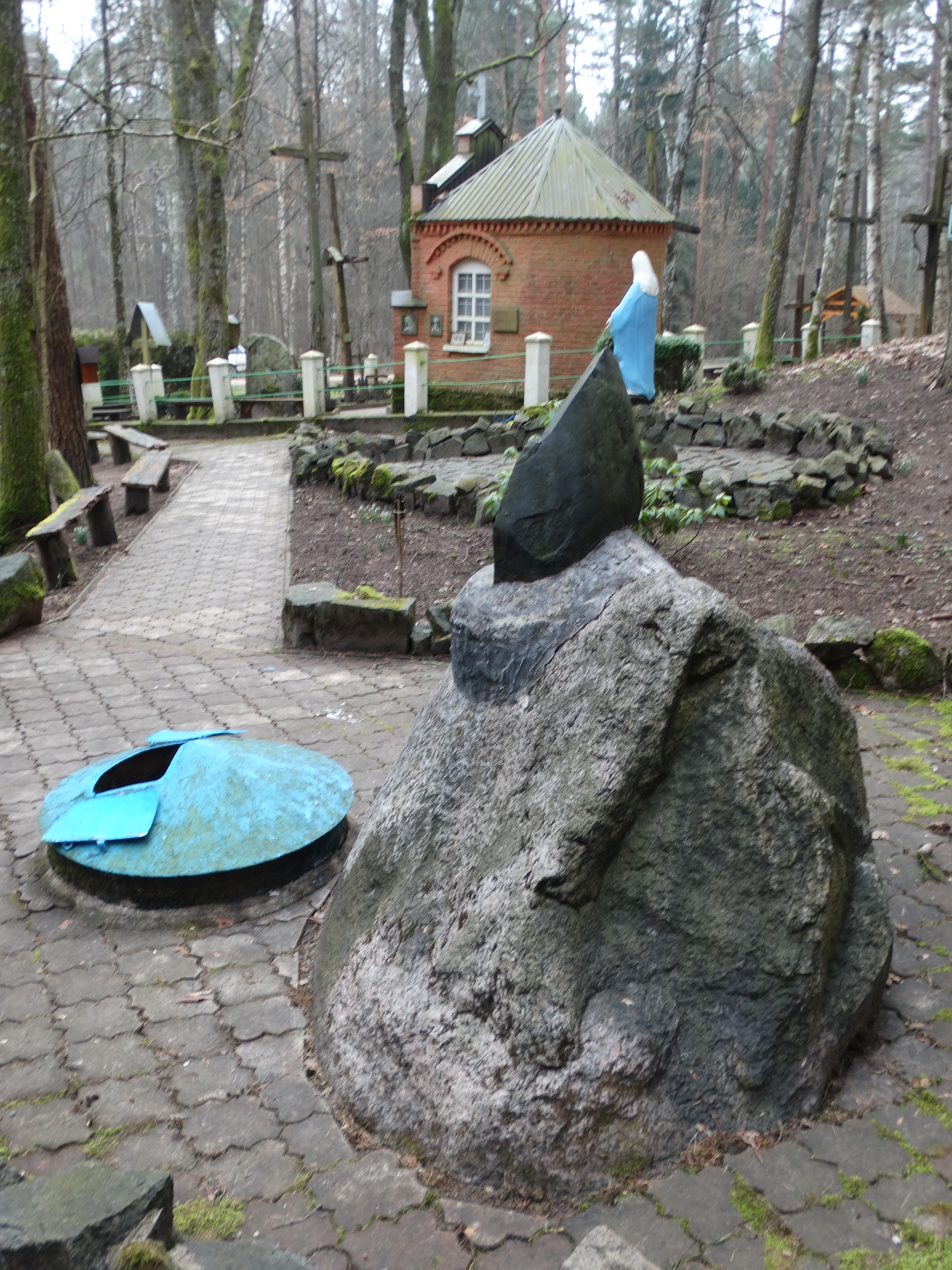 Erškėtynas Spring, stone, Kretinga District, Lithuania